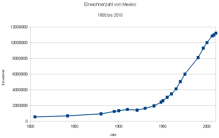 Mexico's population (1805-2010). Data from German wikipedia.